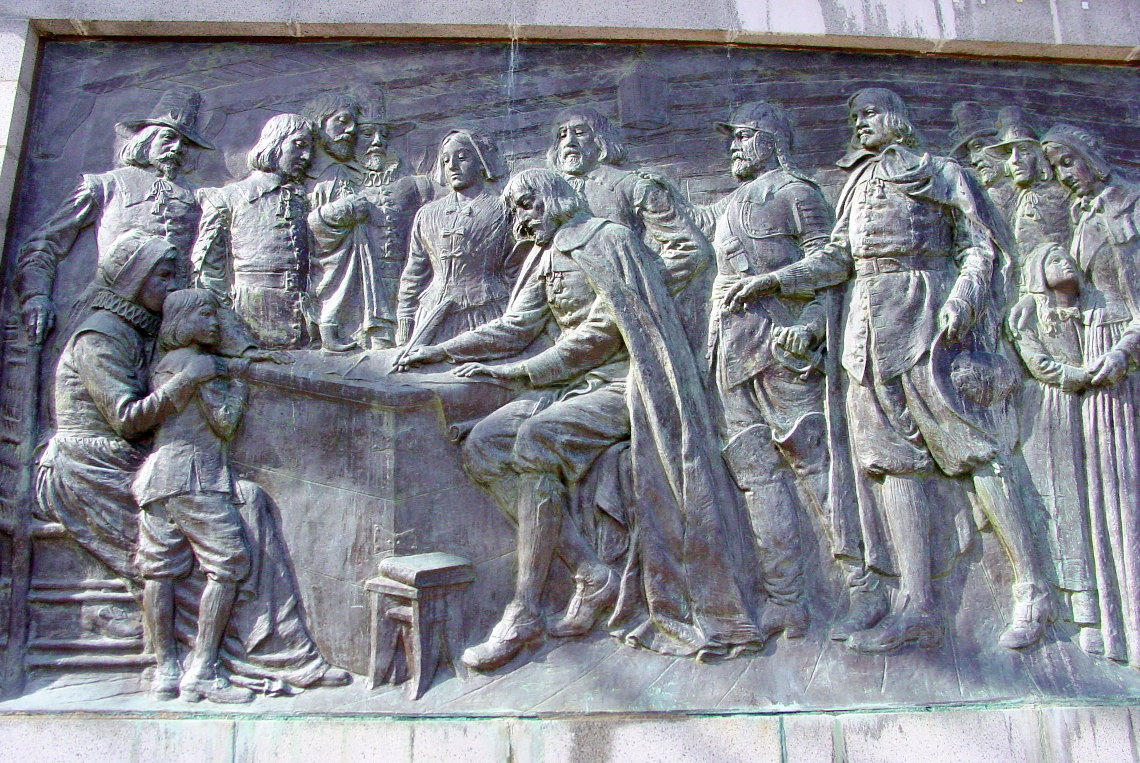 Memorial Bas Relief of the Signing of the Compact on Bradford Street in Provincetown below the Pilgrim Monument